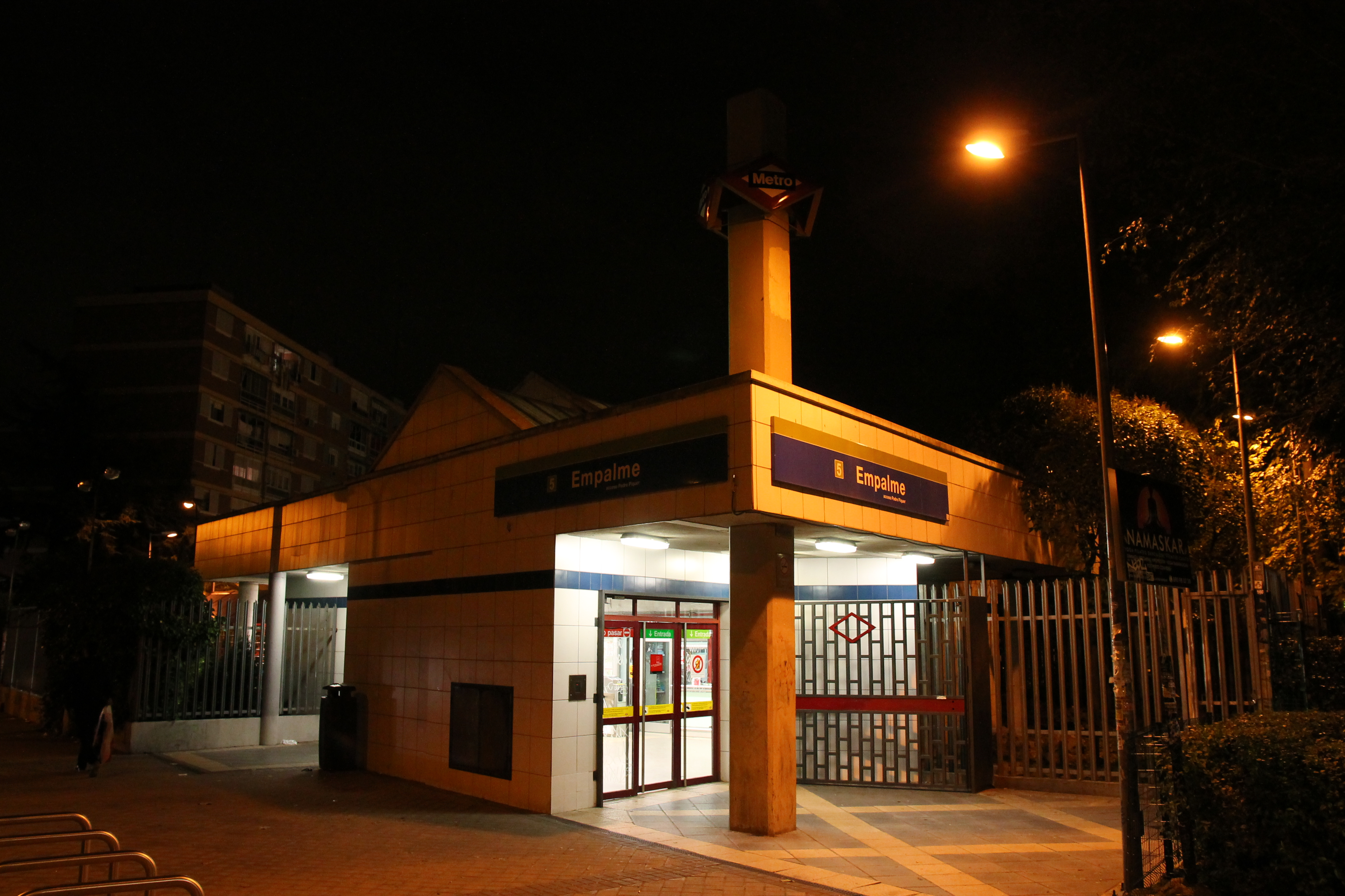 Estación de Empalme